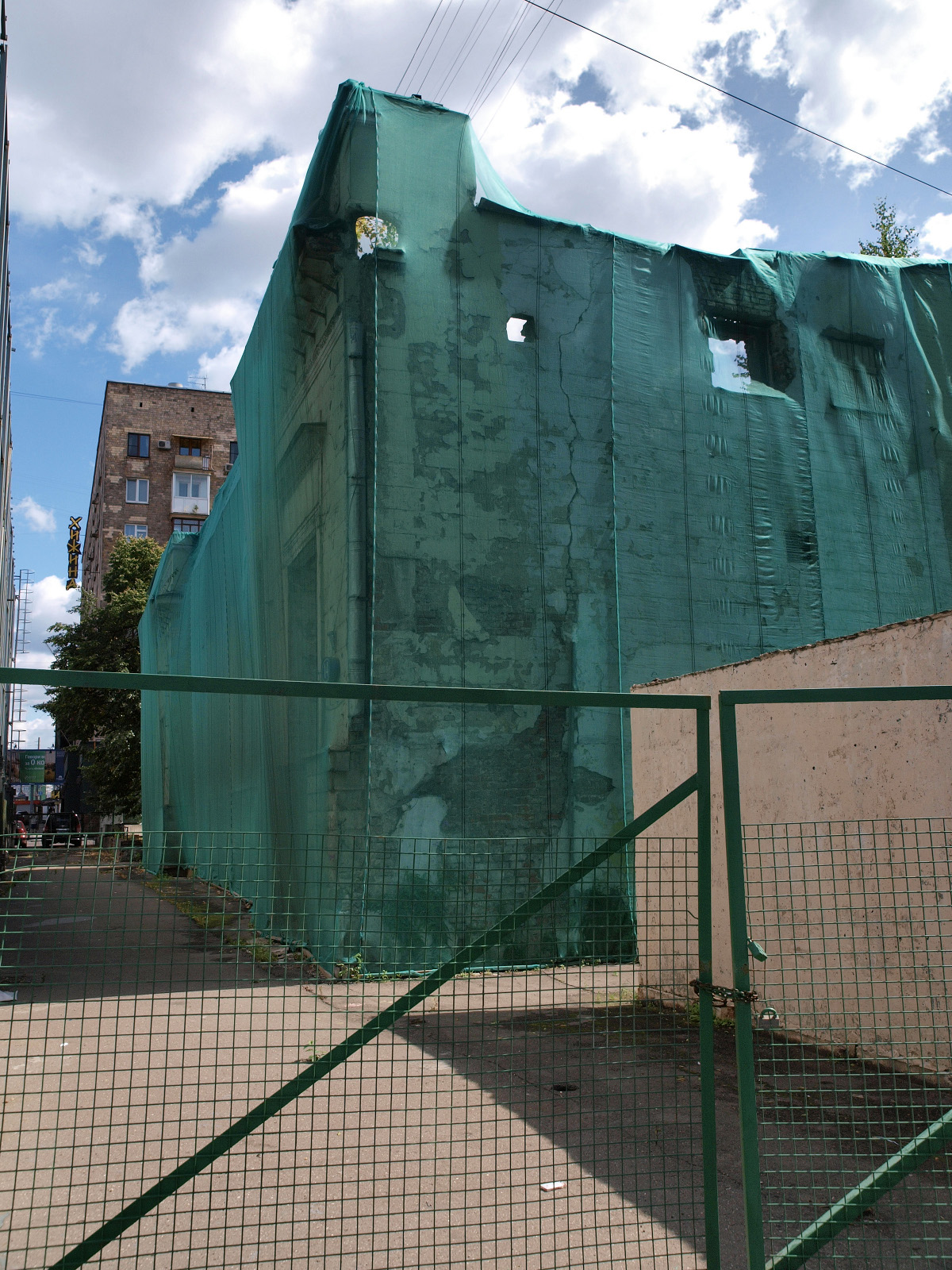 Sadovaya-Sukharevskaya Street (Garden Ring), Moscow - remains of the former Forum Cinema, built in 1914.